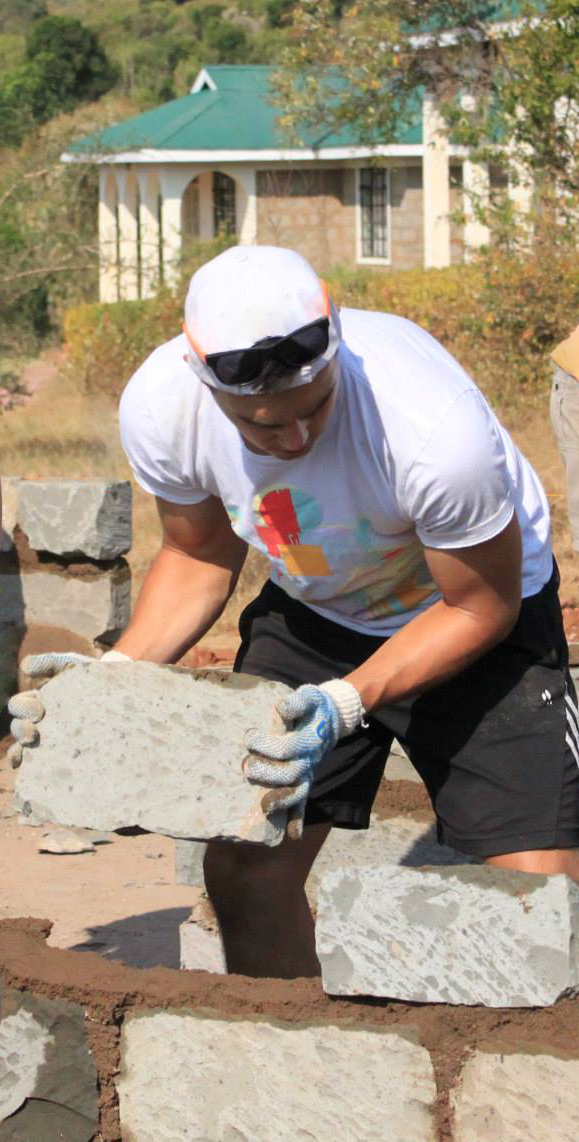 Tyler Shaw helping build a school in Kenya in 2014 as part a team dedicated to We Charity